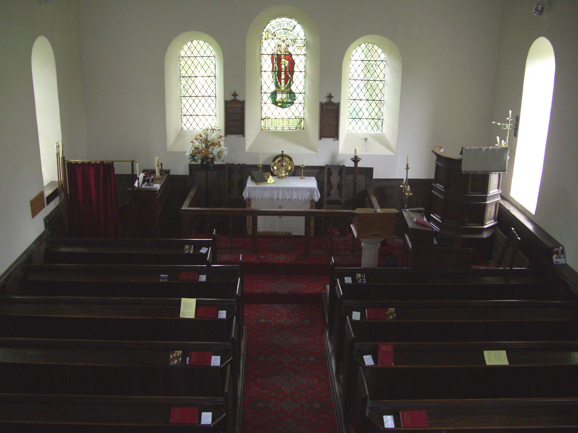 The interior of Newlands Church, Cumbria, England